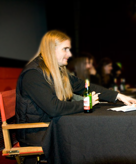 Opeth's DVD screening and signing from the Prince Charles Cinema, London's West End on 4th November 2008.